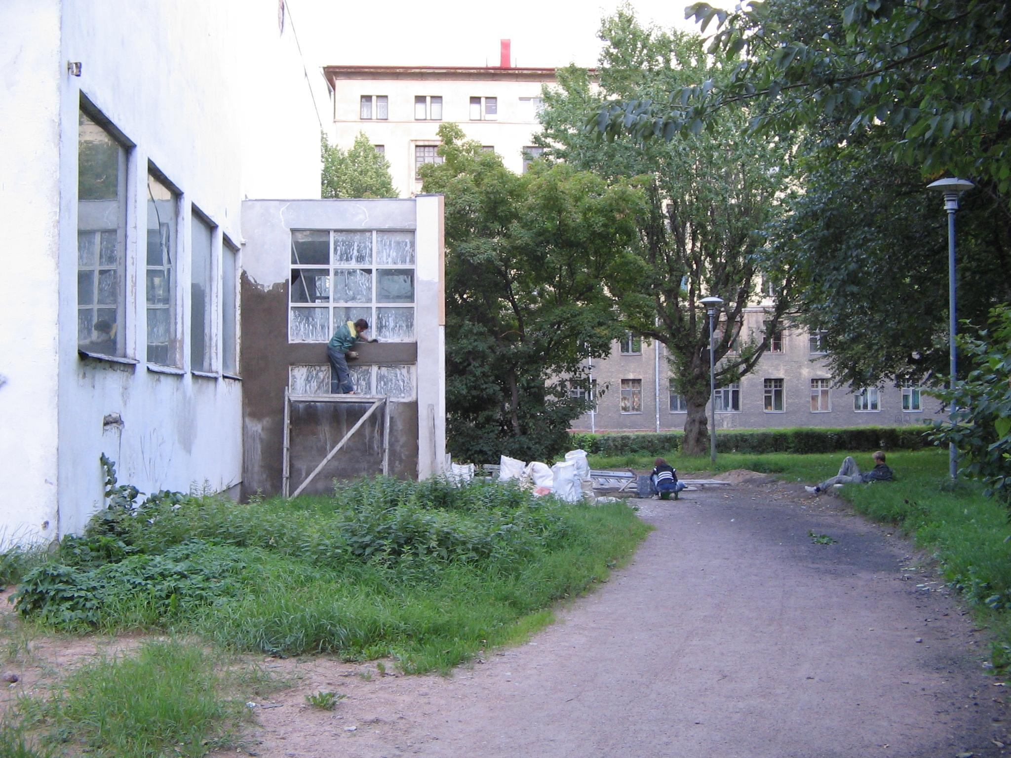 Restoration proceeding on the Alvar Aalto library in Vyborg (Viipuri)